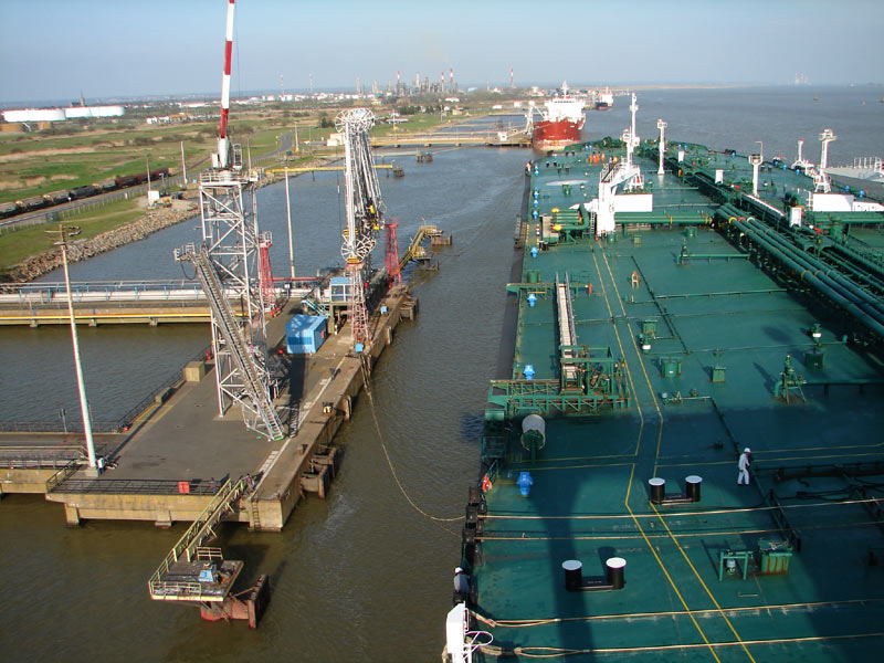 Mooring operations on an oil tanker in Saint-Nazaire (Donge)